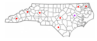 Updated map of CSLC's.